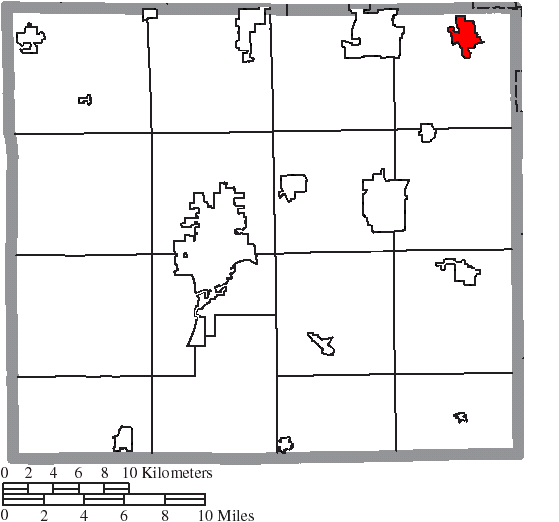 Map of the municipal and township boundaries of Wayne County, Ohio, United States, as of the 2000 census, with the location of the village of Doylestown highlighted. Township borders are shown only in unincorporated areas in order to differentiate incorporated and unincorporated areas more clearly.